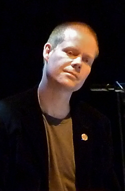 Portrait of composer Max Richter at Cadogan Hall, London